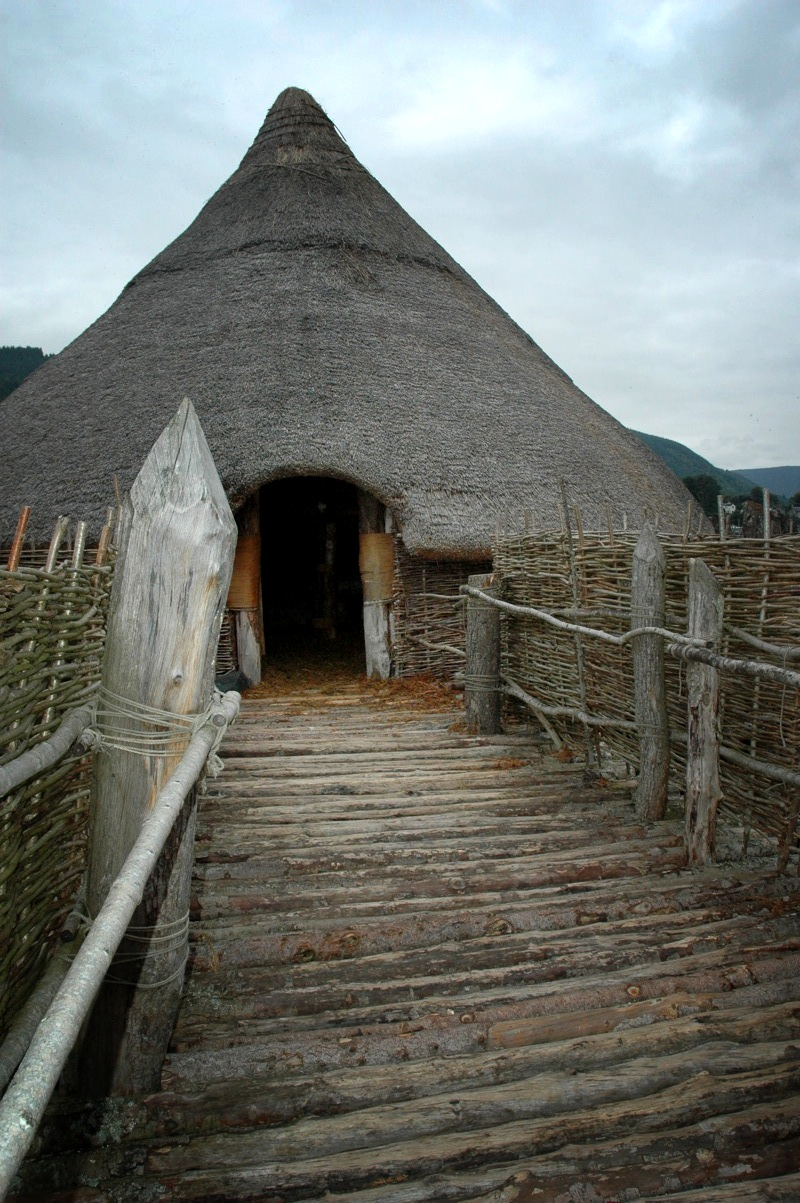 Crannóg, Loch Tay, 2009.